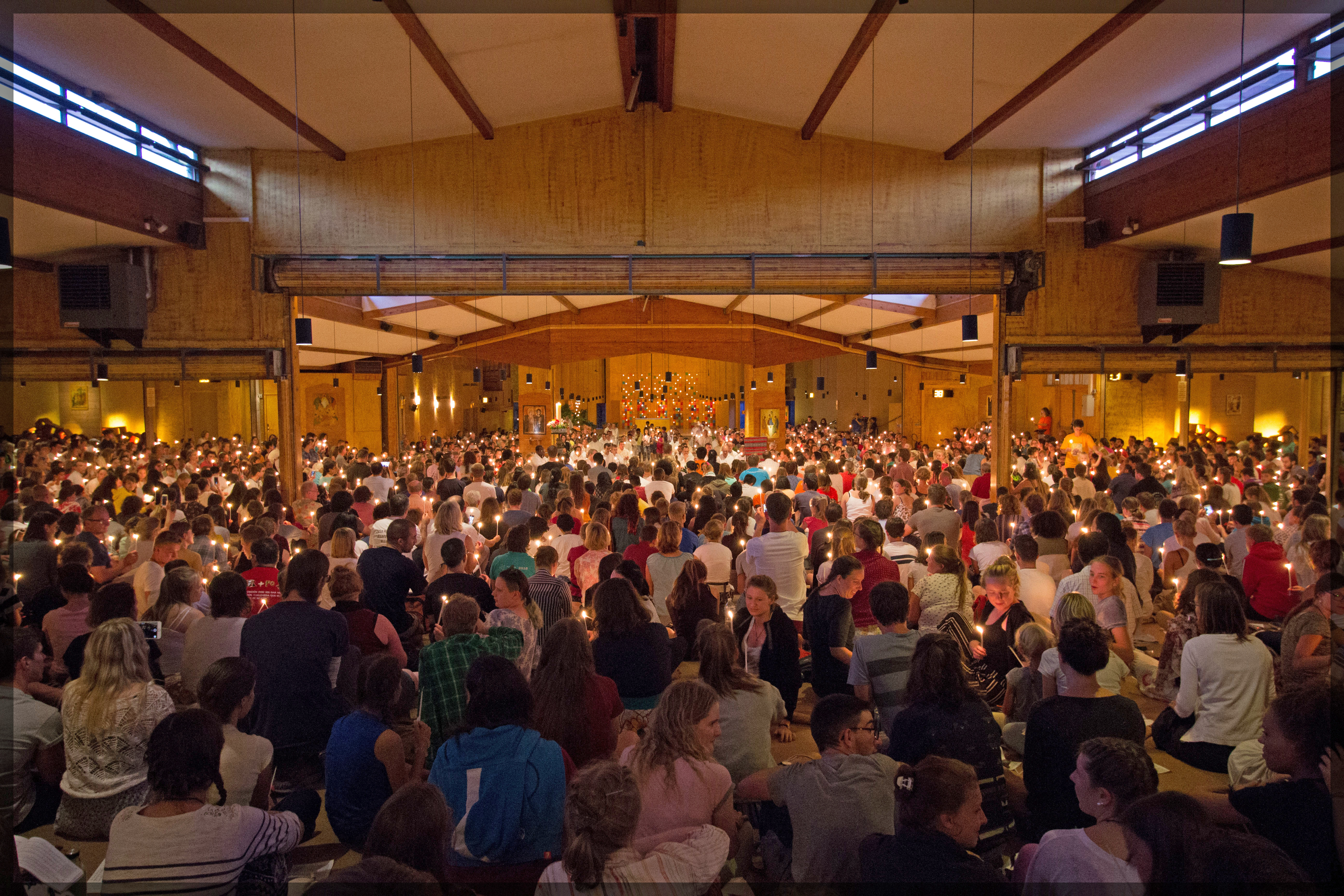 Taizé